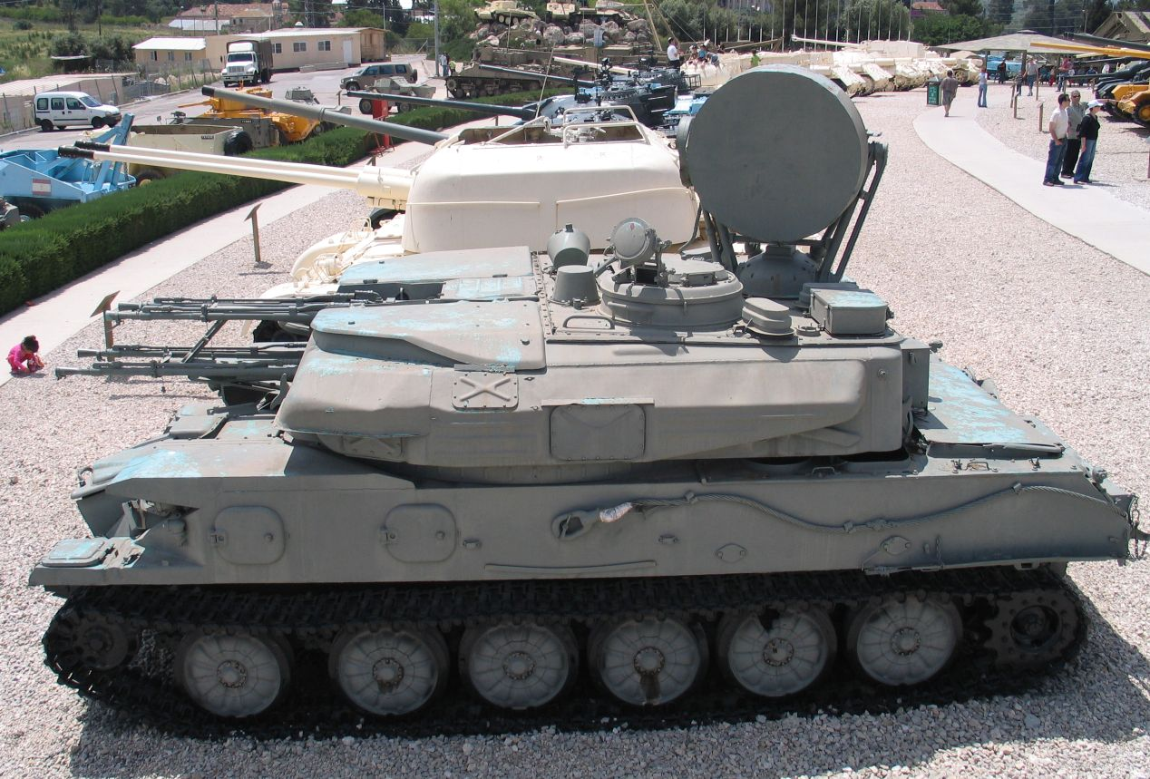 ZSU-23-4 Shilka SPAAG in Yad la-Shiryon Museum, Israel. Radar antenna is rised in working position.